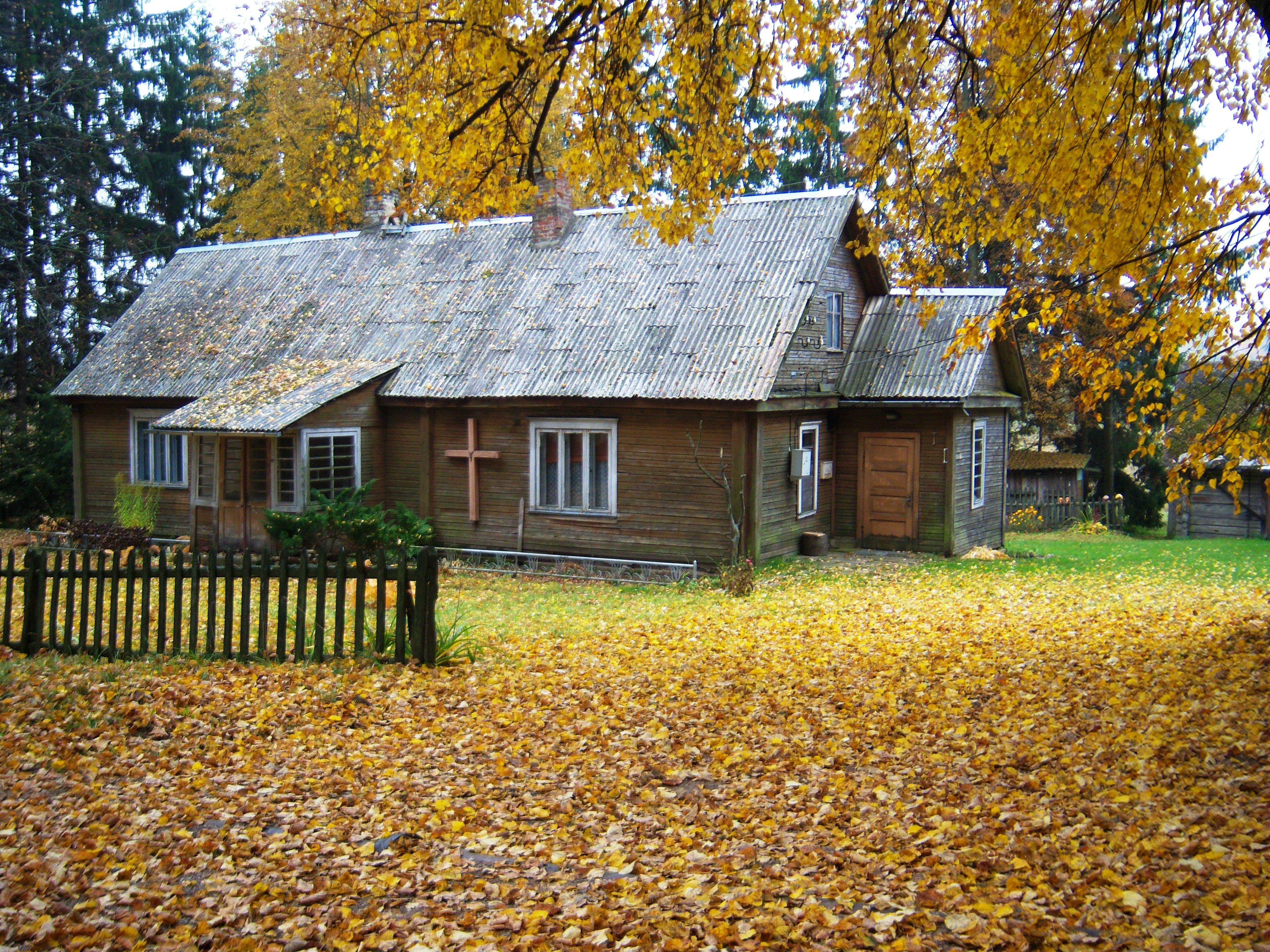 Užunvėžiai, clergy house, Anykščiai District, Lithuania